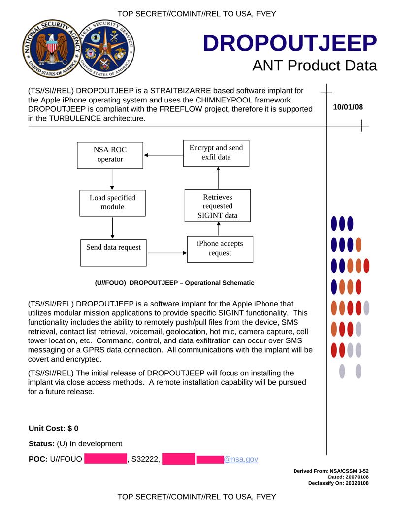 DROPOUTJEEP - Software implant for the iOS operating system of the iPhone